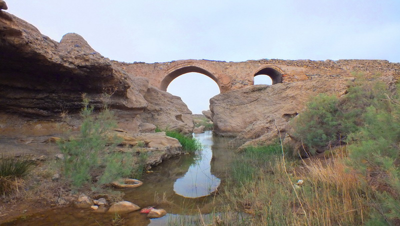 Tayqan Bridge